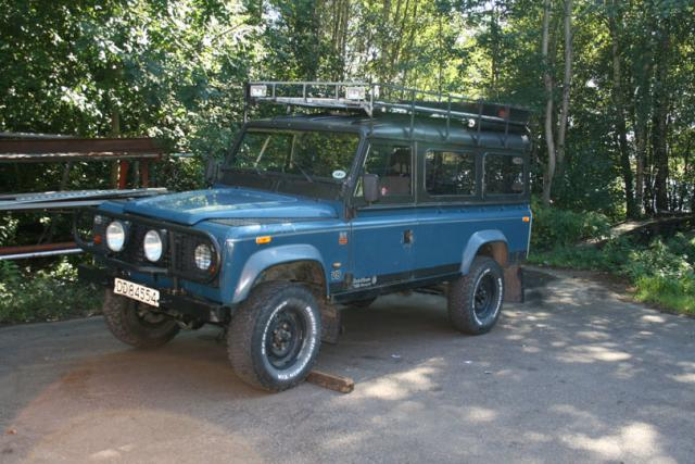 Land Rover 110 1983